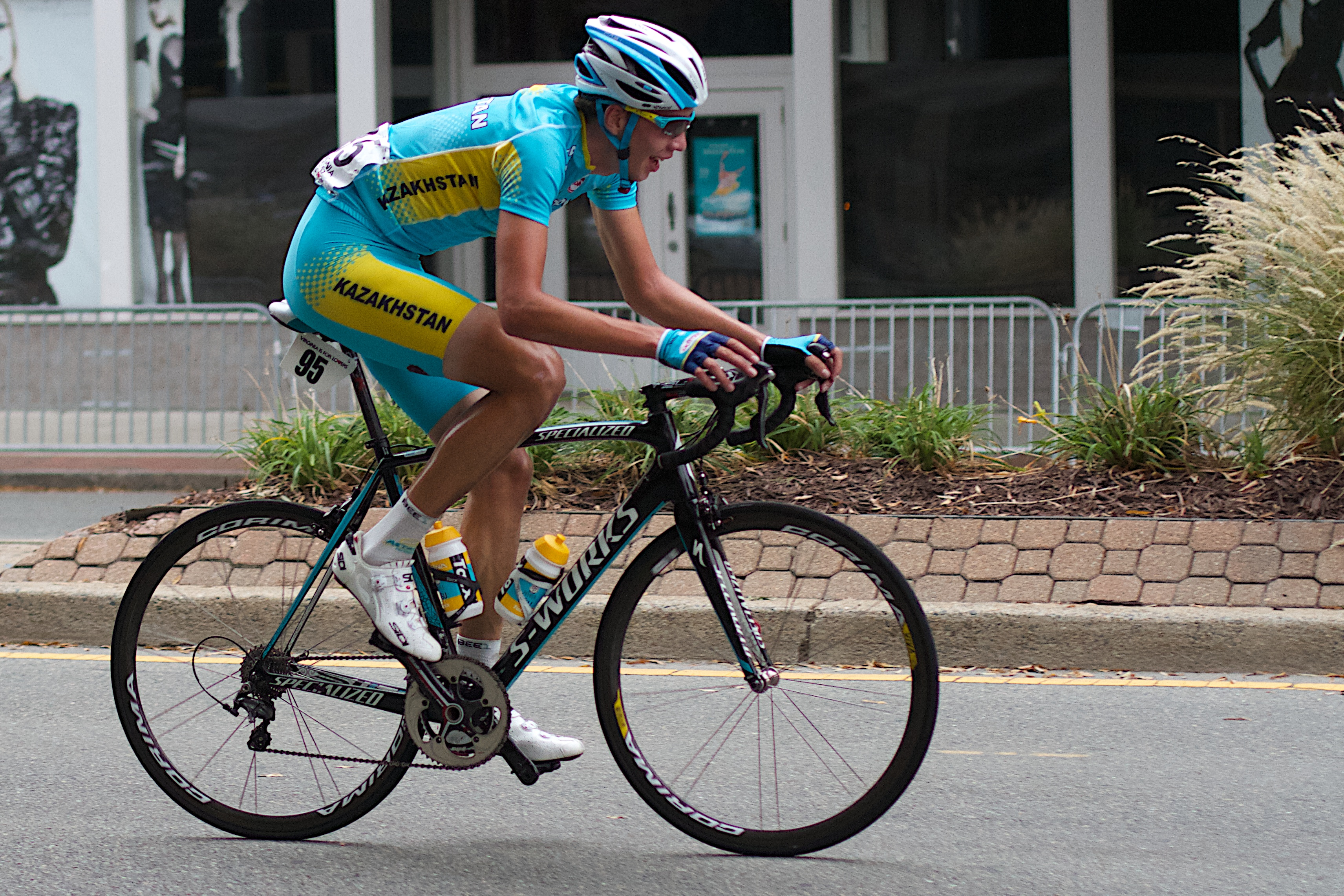 Is he having fun or what? UCI Road Championship Races, Richmond VA 2015 UCI Road World Championships, in Richmond, United States, men's under-23 road race